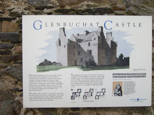 Historic Scotland plan of Glenbuchat Castle